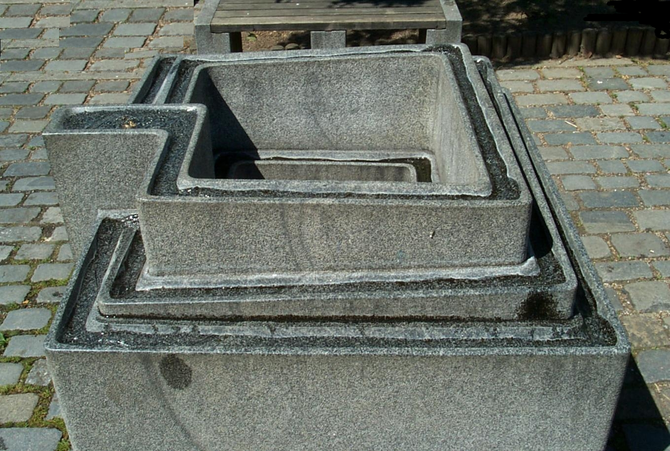 Labyrinth fountaine Toni Scheubeck